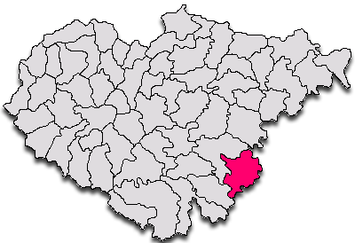 Map Salaj County Romania